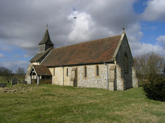 Colemore, Hampshire, Church of St Peter ad Vincula. Captured complete with twin-propellered helicopter! The church is in the care of the Churches Conservation Trust